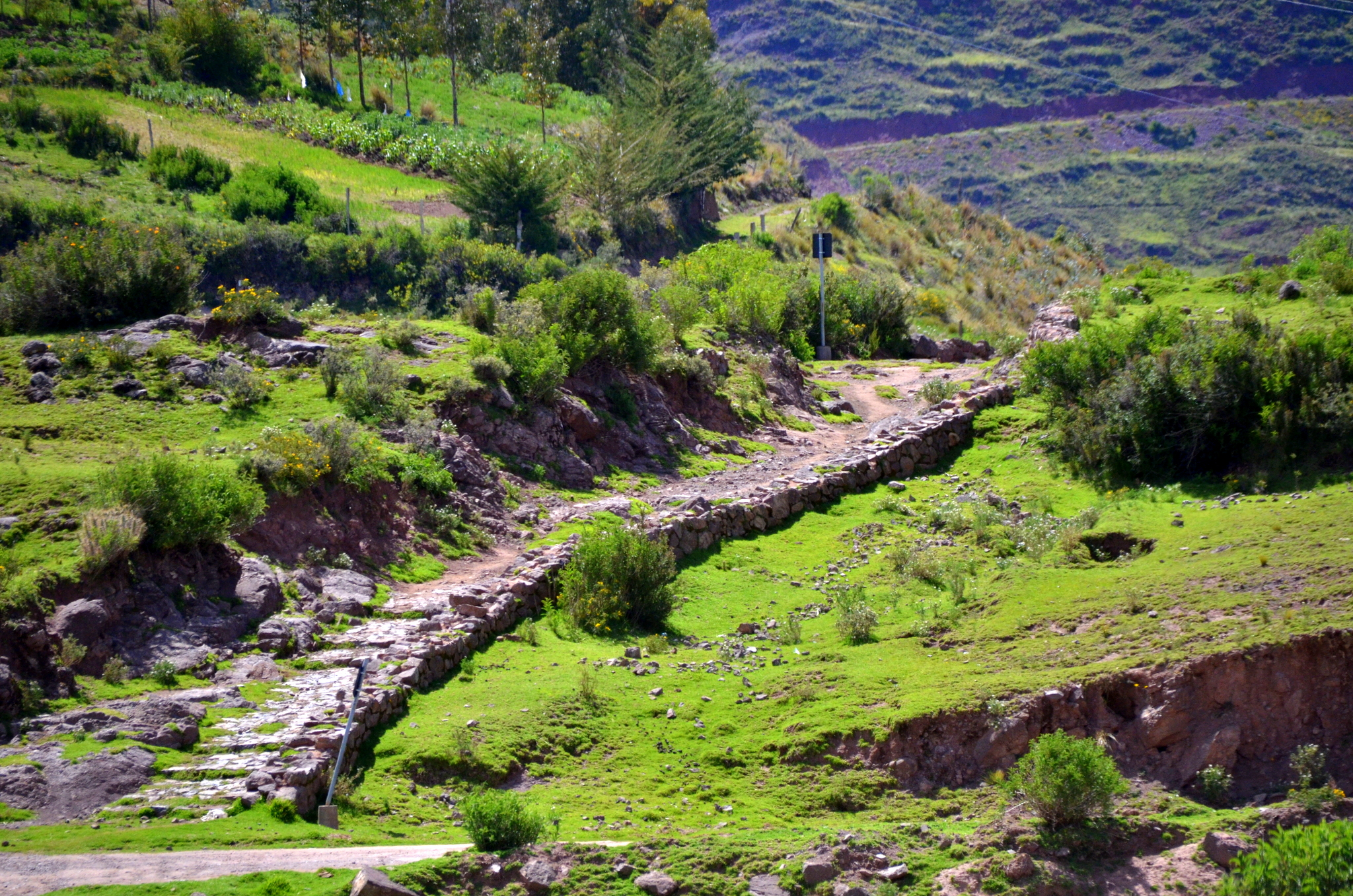 a view of the Inka road climbing a hillside at the Mosollaqta lake, Peru